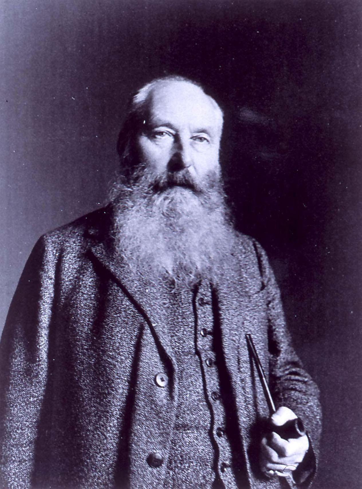 French composer Guy Ropartz (1864-1955)